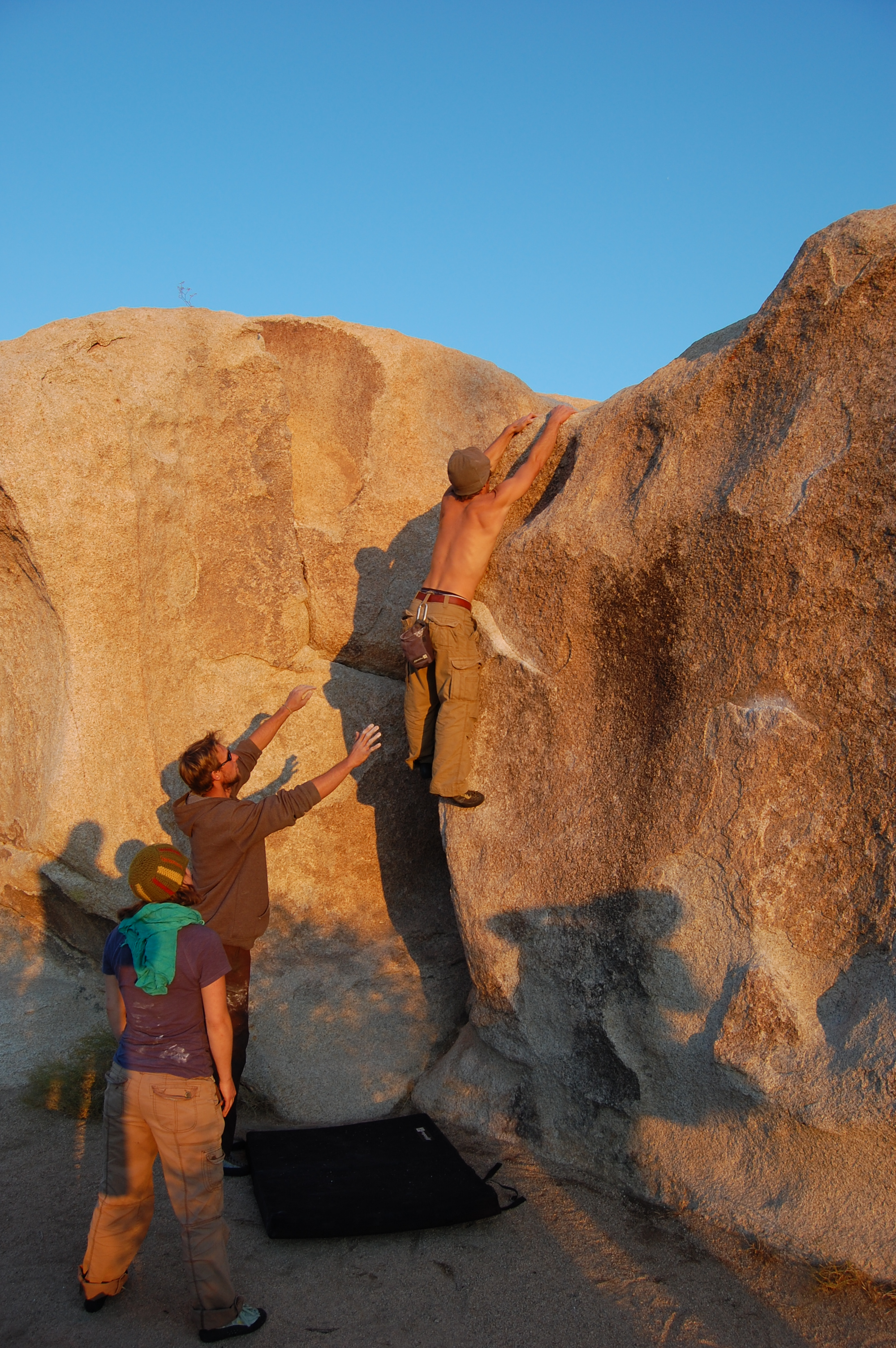 Climber climbing Fishbait (V1) on Manx Boulder near Cyclops Rock at Hidden Valley Campground in Joshua Tree National Park